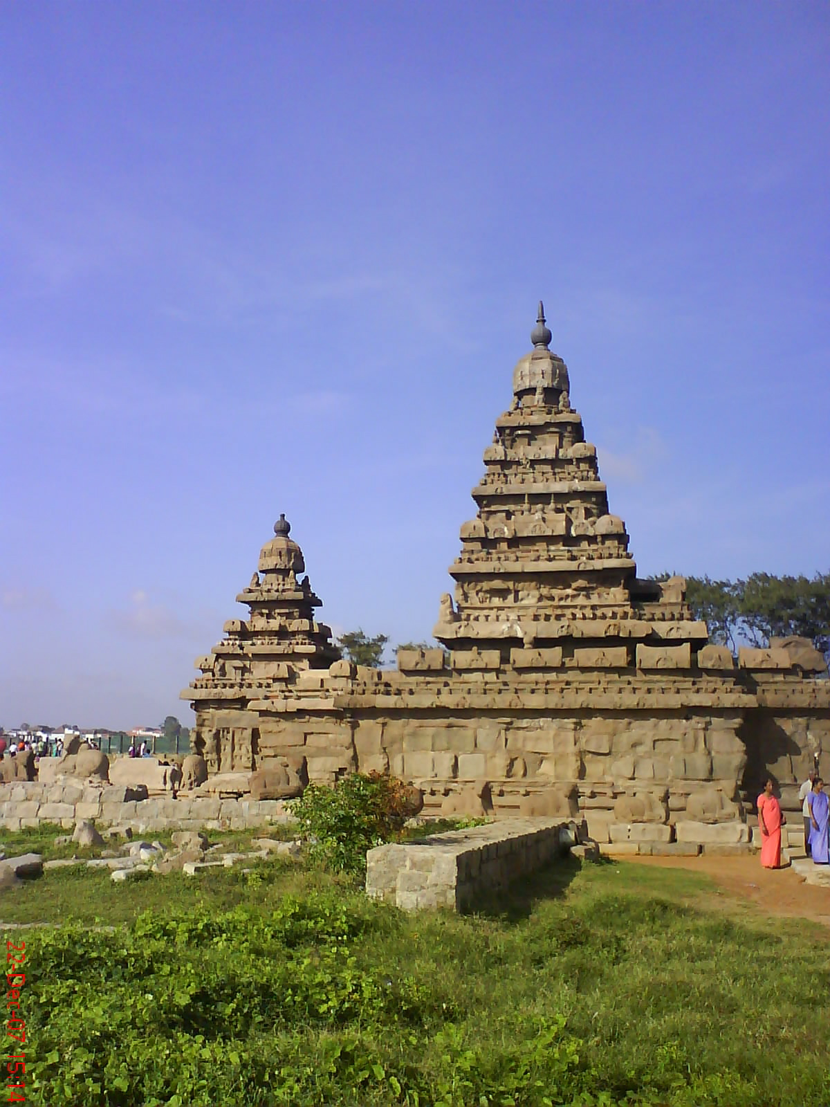 The Shore Temple at Mamallapuram